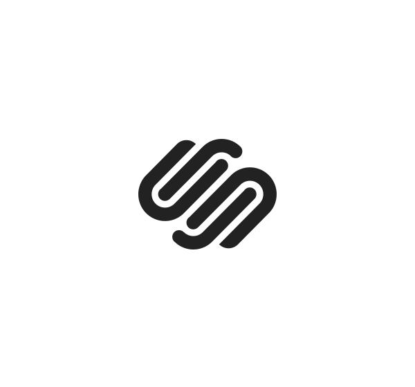 This is a logo for Squarespace.